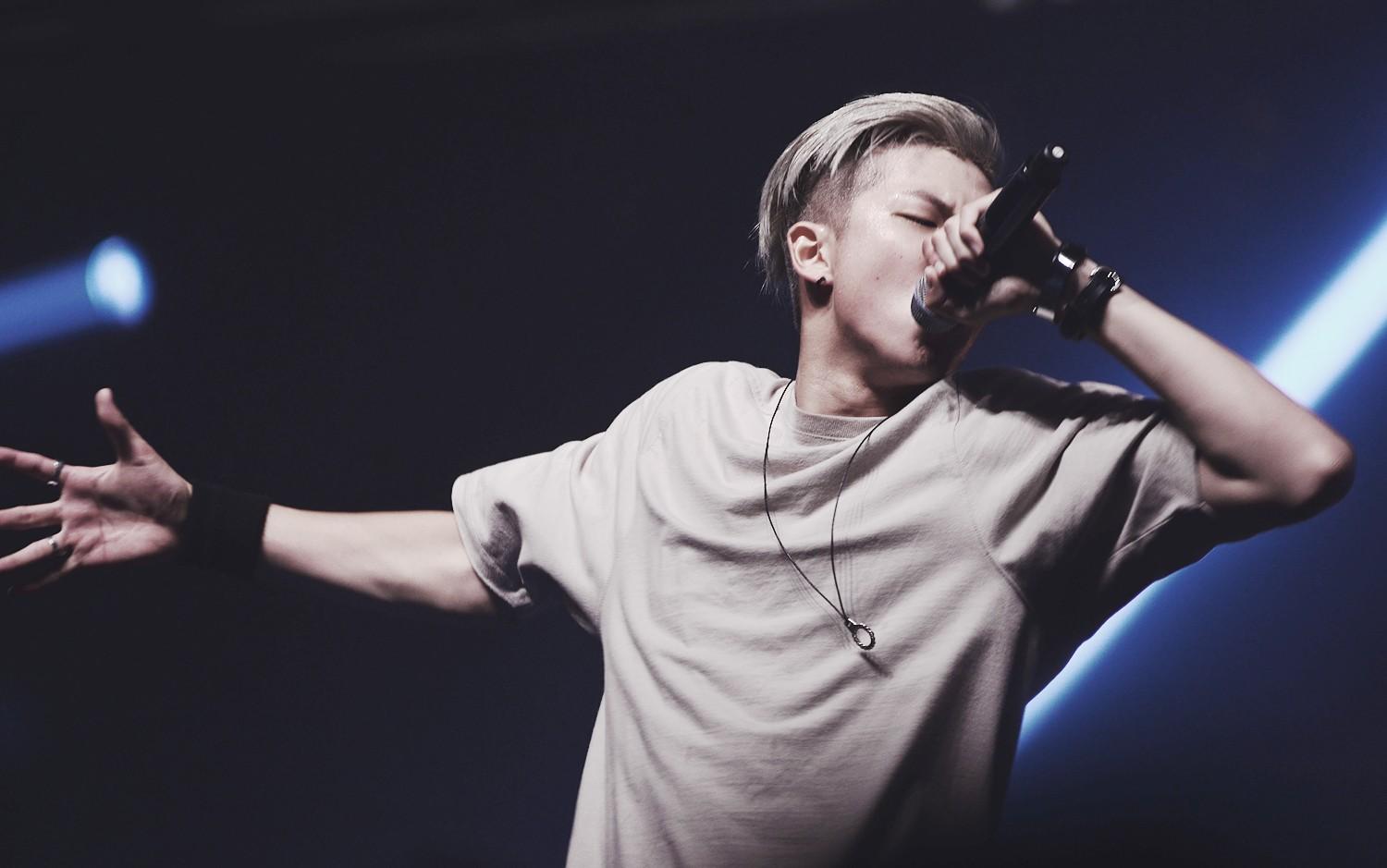 Rap Monster performing at the Air Force One concert, 20 September 2015